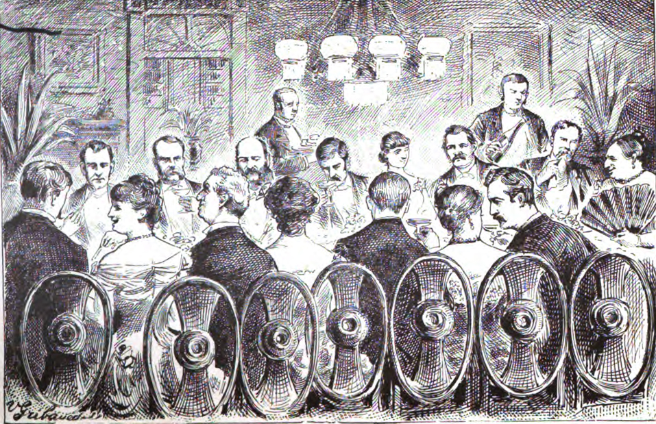 An illustration of a typical dinner party hosted by Marm Mandelbaum, a 19th century criminal fence and underworld figure, from "Recollections of a New York Chief of Police" (1887) by George W. Walling. Uploaded by request at WP:IFU.